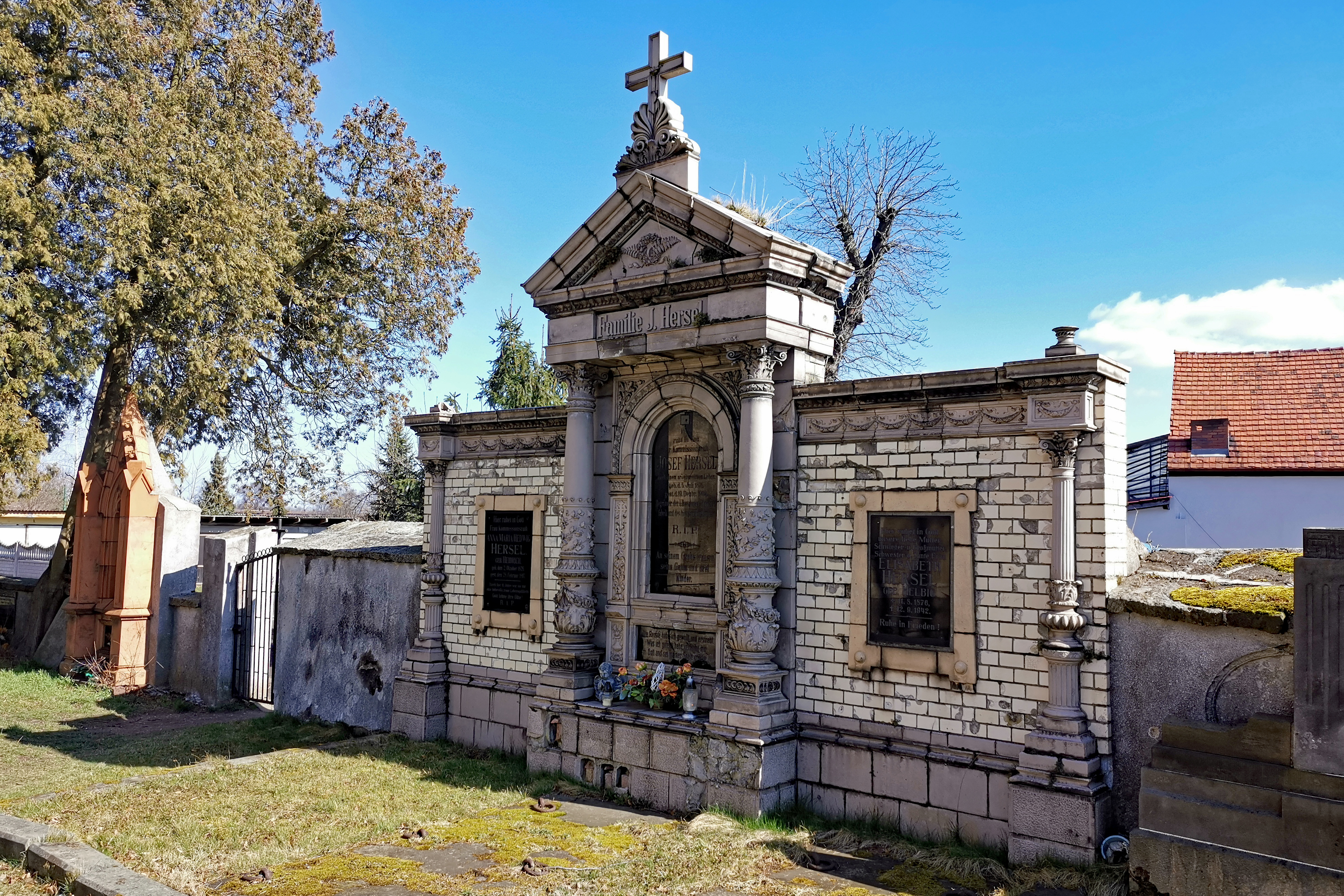 Nowogrodziec (Lower Silesian Voivodeship, Poland)